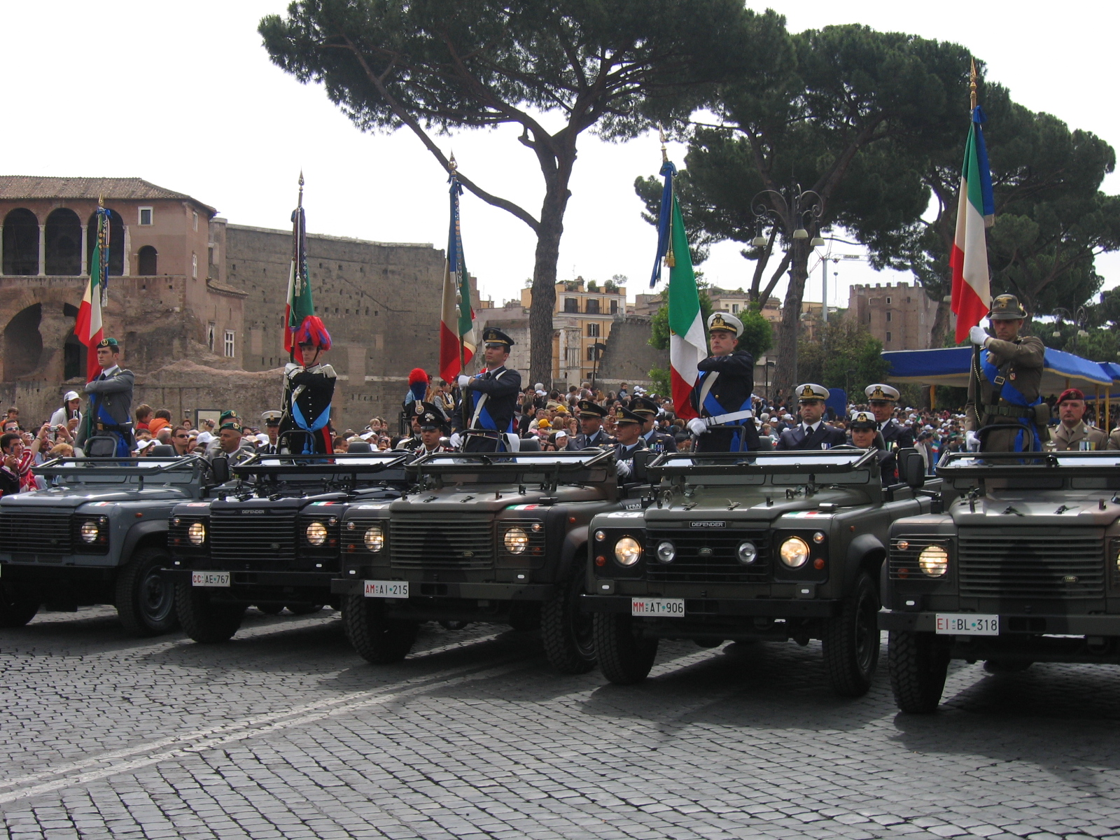 Photo of Army Parade in Rome, 2 june 2006, Festa della Repubblica Italiana. APC with "National flags of the Corp" for the four Armed Forces plus Guardia di Finanza (Customs and financial police). From Right to left: Italian Army Flag, Italian Navy Flag, Italian Air Force flag, Carabinieri Flag, Guardia di Finanza Flag